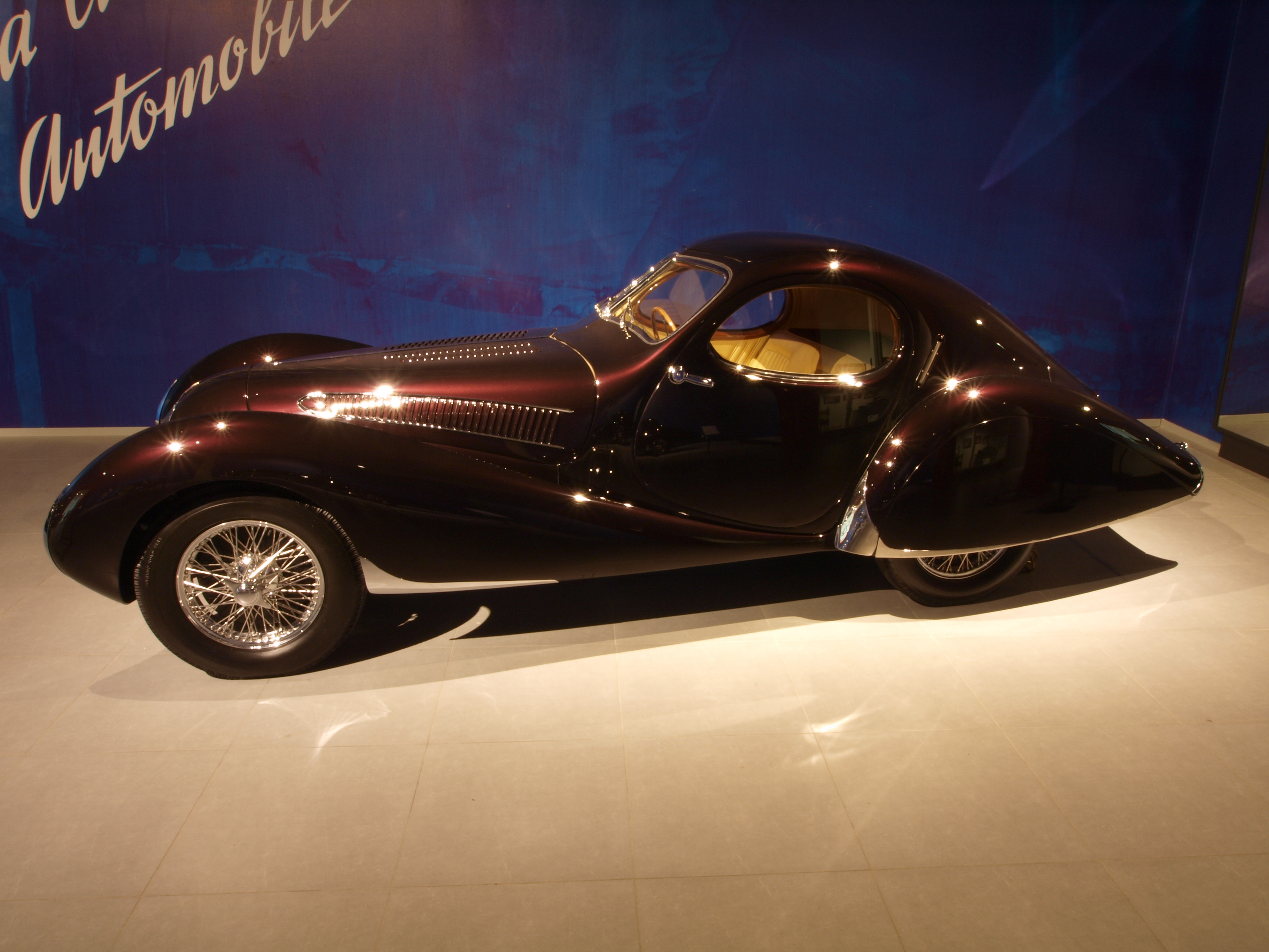 Photographed at the Louwman museum / Louwman Collection, The Netherlands.